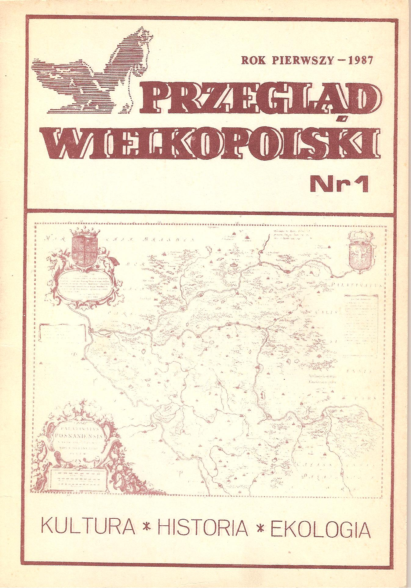 Okładka nr 1 (1) z 1987 roku kwartalnika "Przegląd Wielkopolski" wydawanego przez Wielkopolskie Towarzystwo Kulturalne w Poznaniu